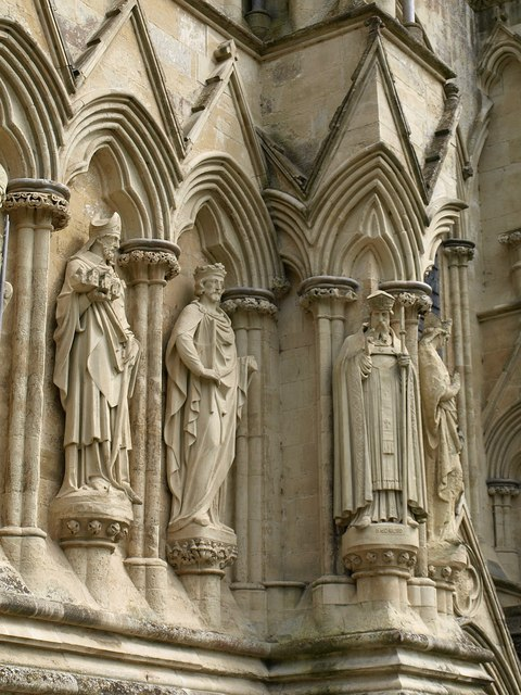 Statues, Salisbury Cathedral Some of 67 statues on the west front; these are at the northern end of the facade.